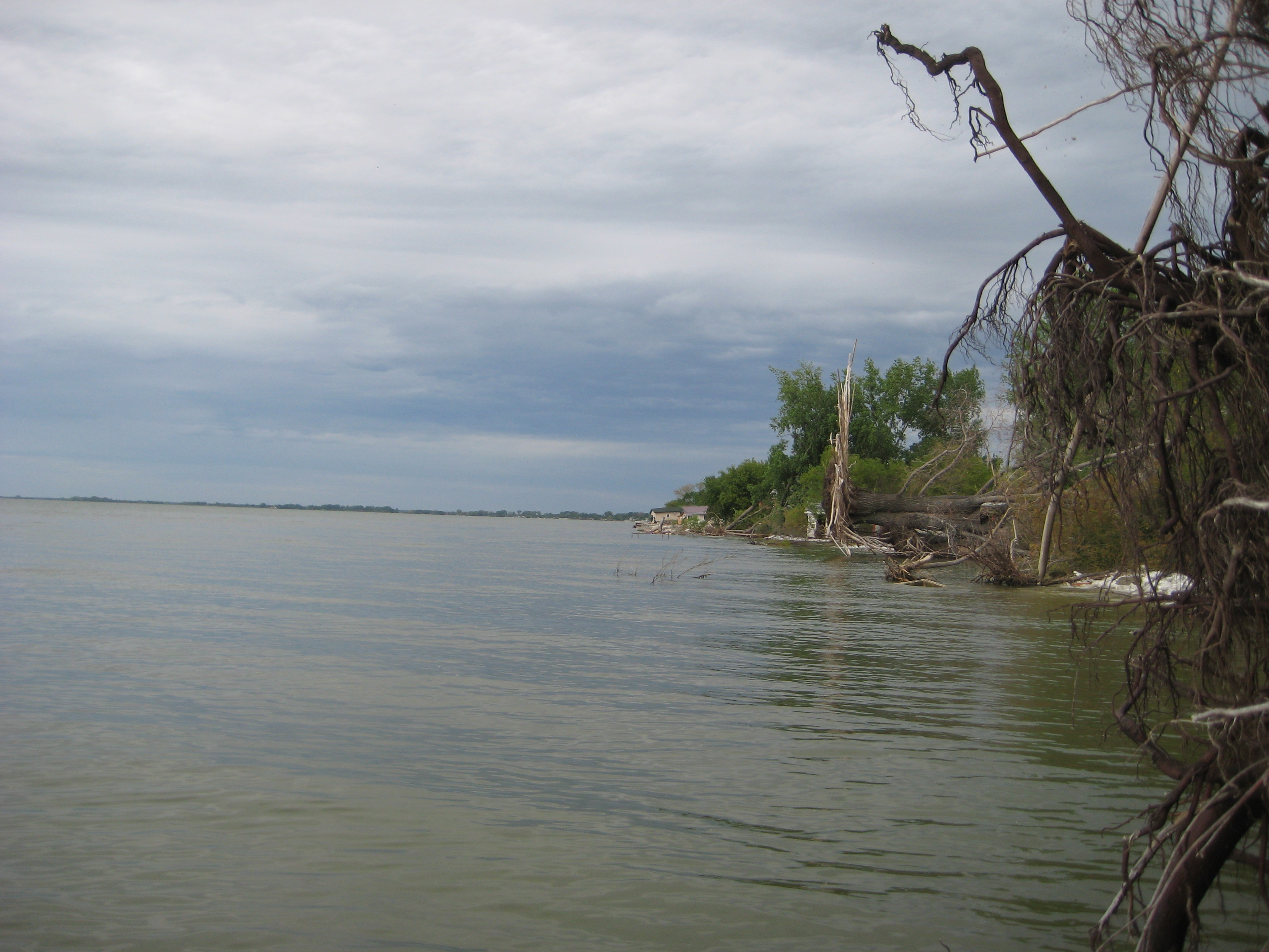 View of Twin Lakes Beach from late July 2011 near the peak water levels on Lake Manitoba